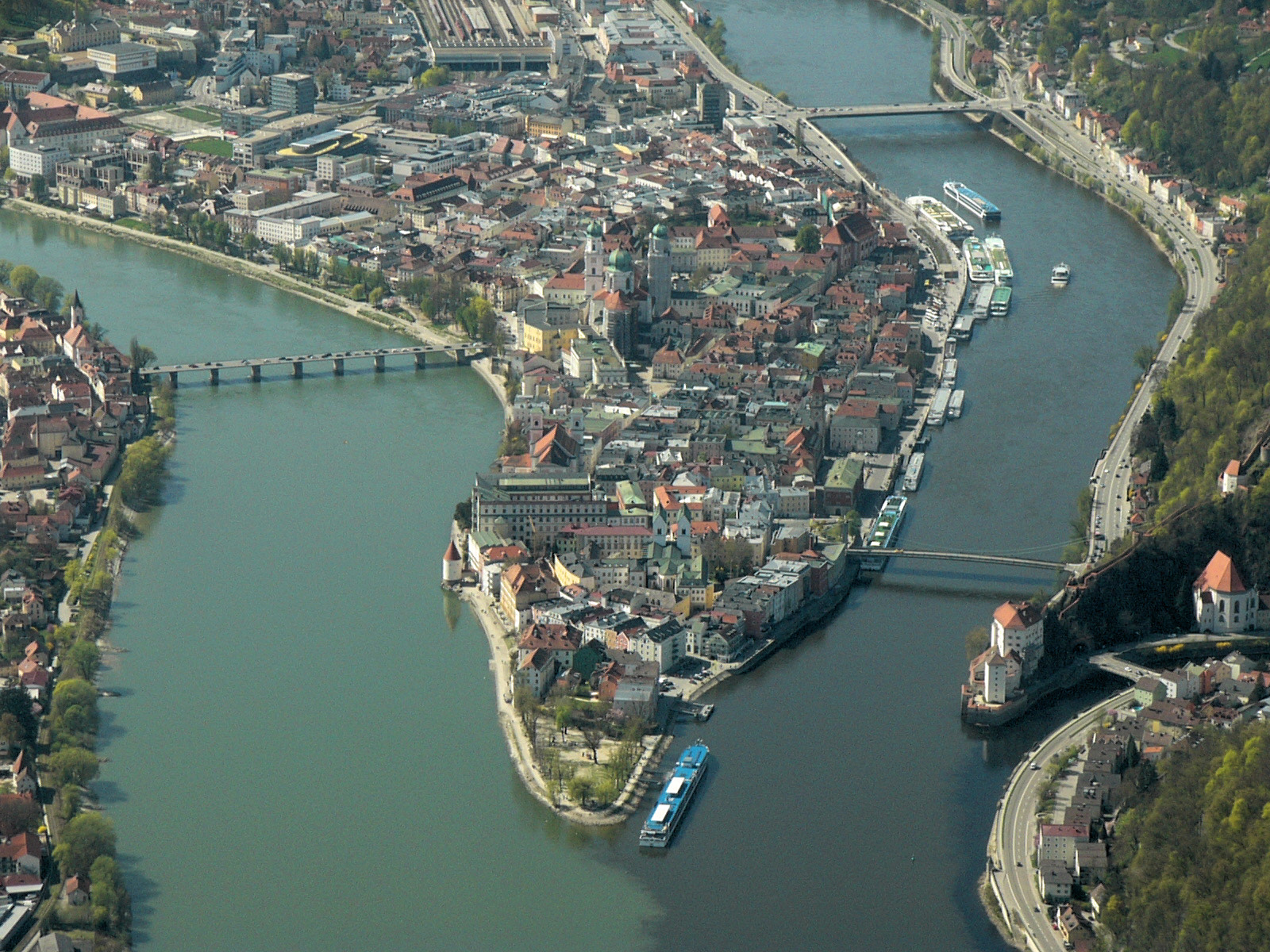 Aerial view of Passau, Germany